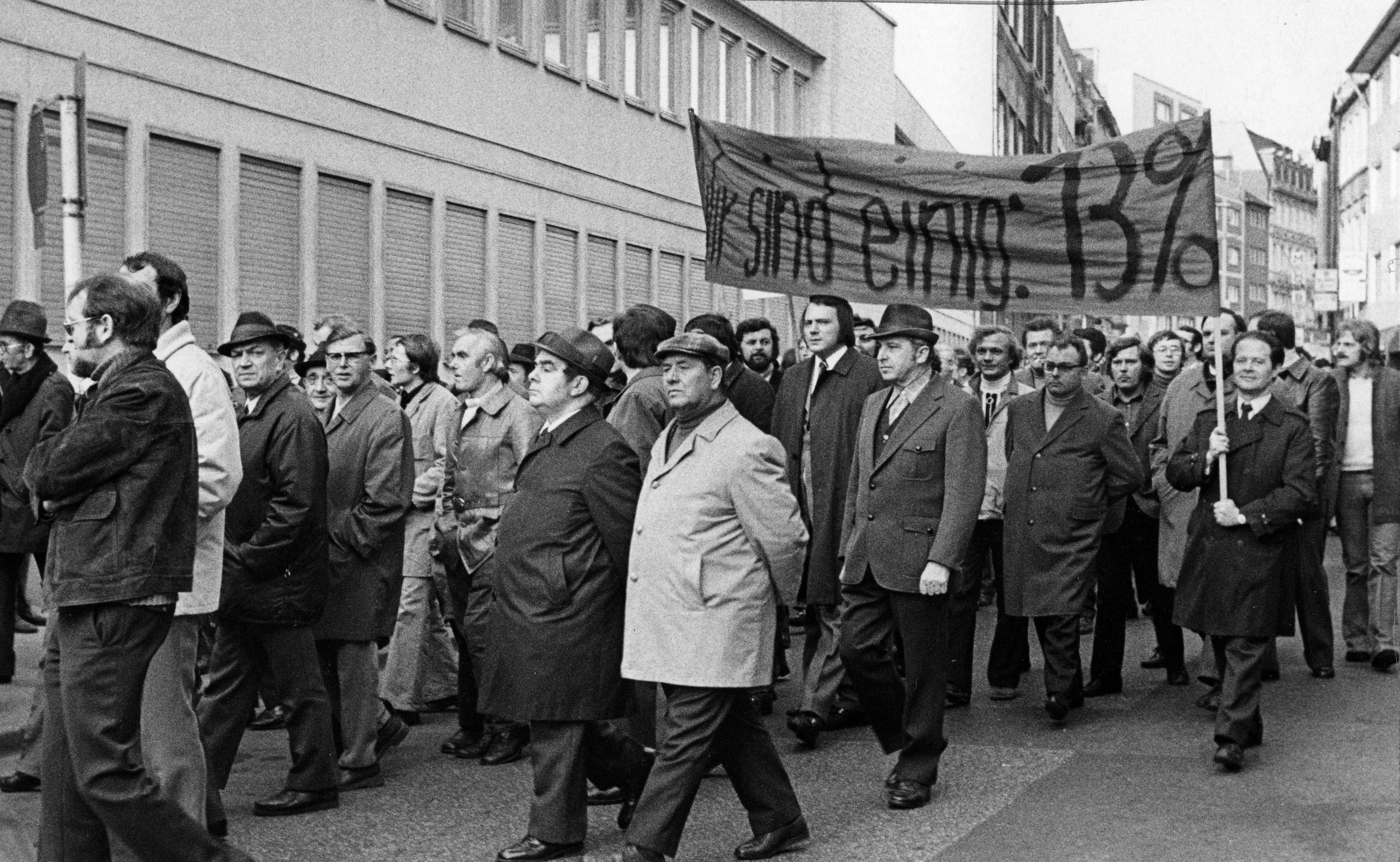 Organized Strike in Germany 1973, Cologne